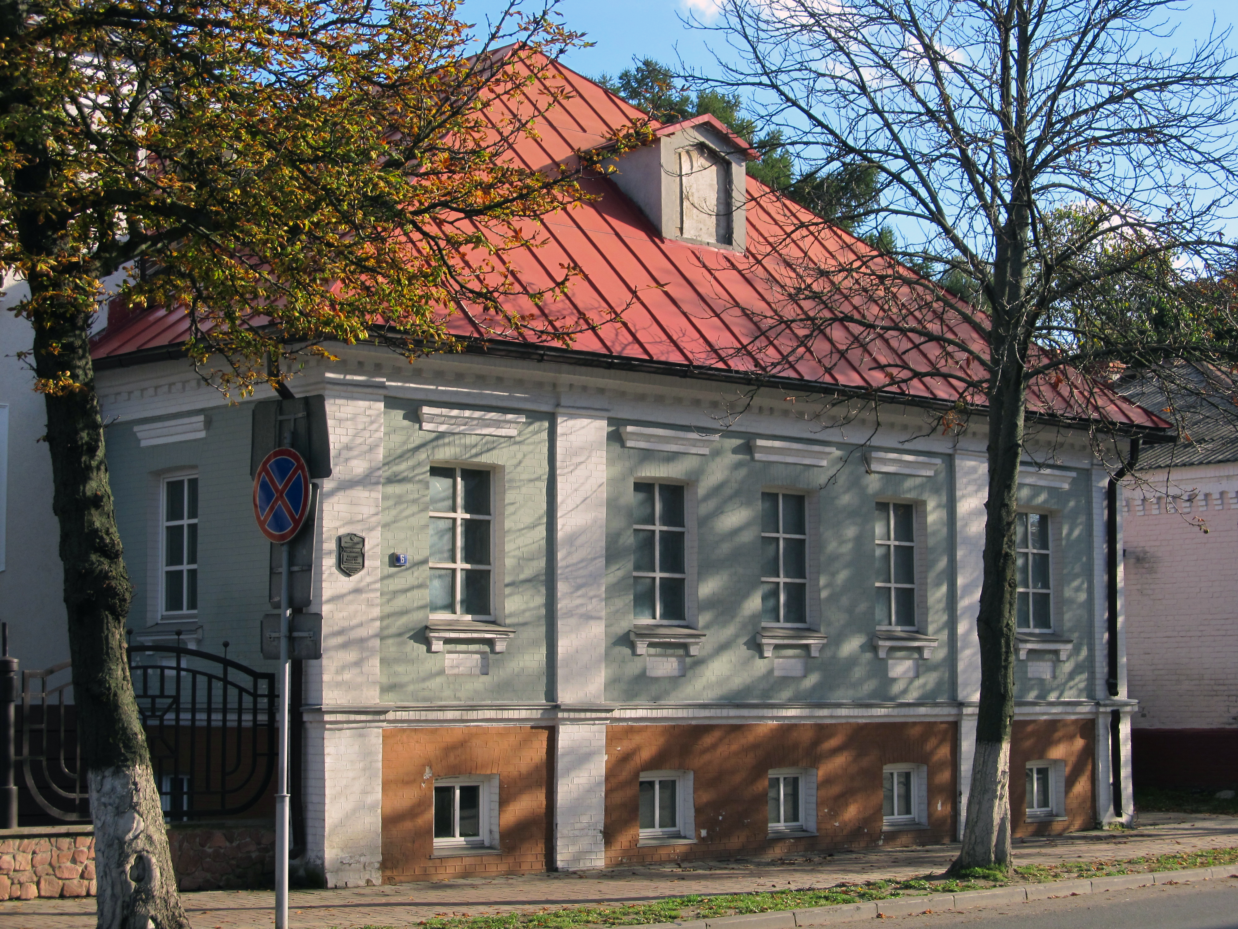 Беларуская (тарашкевіца): Будынак. г. Гомель This is a photo of Belarusian heritage monument. Reference number: 313Г000057 ( WLM)